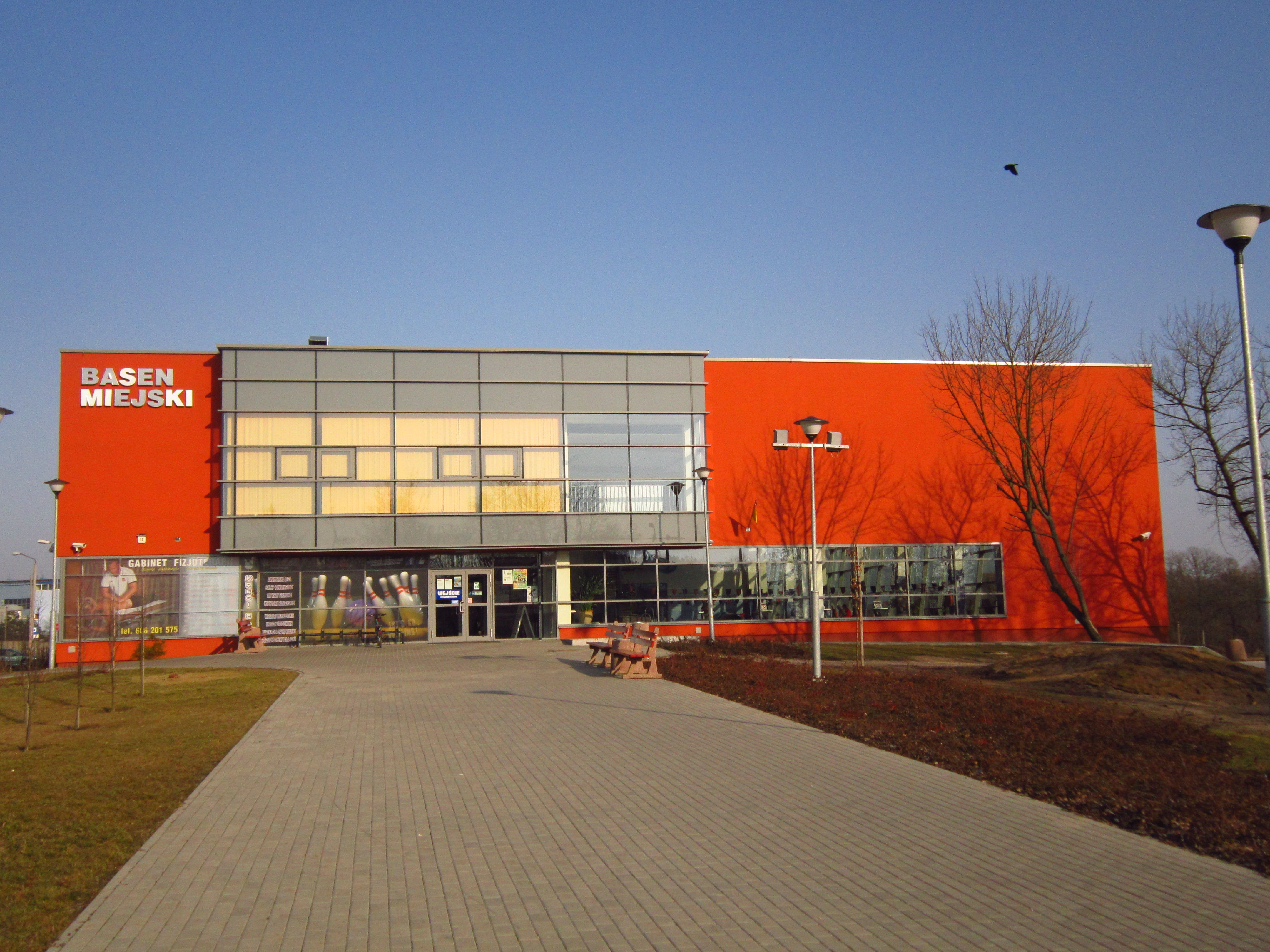 City swimming pool in Słodowo district in Włocławek.